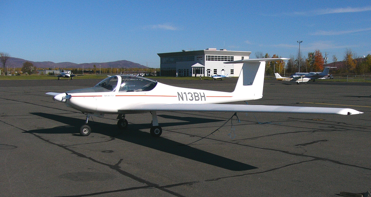 Valentin Taifun 17E motor glider at the Bromont Quebec Airport